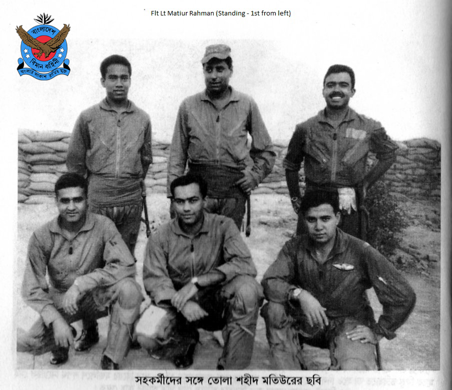 Bir Shreshto Flt. Lft. Matiur Rahman.